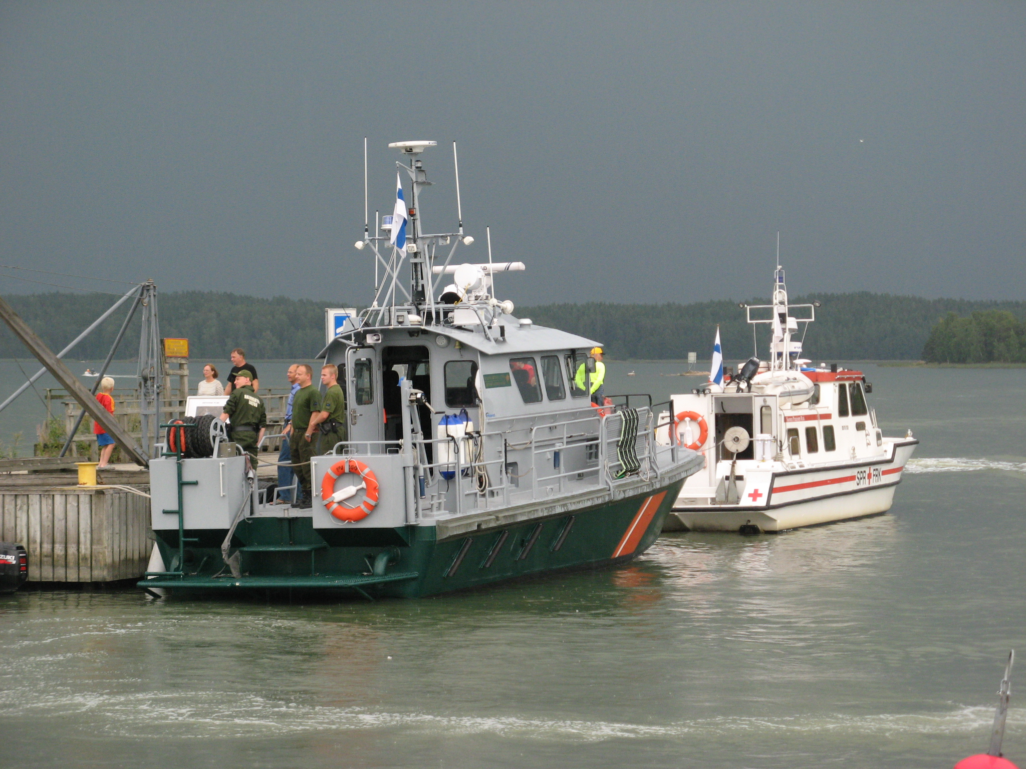 Patrol vessel of the Finnish coast guard and Caritas of the Finnish Read Cross at the event "Boundbirs'n" in Pargas 2009.